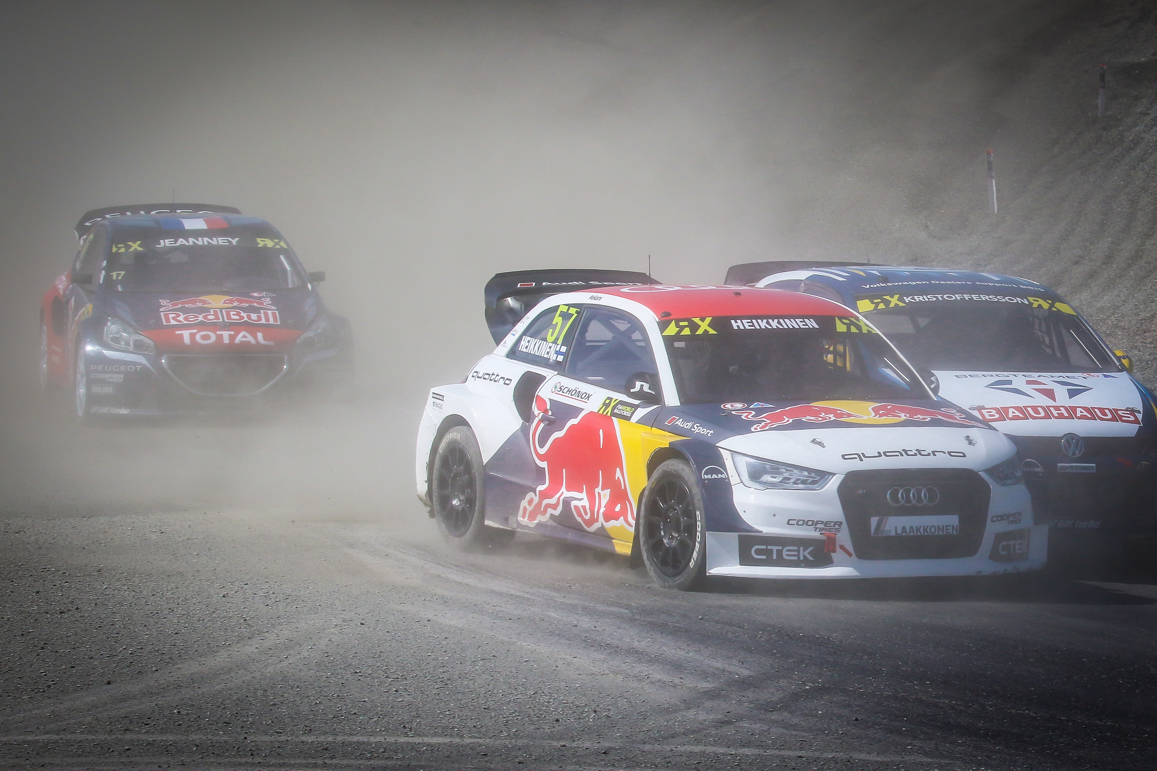 2016 FIA World Rallycross Championship / Round 05, Hell, Norway / June 10-12 2016 // Worldwide Copyright: Colin McMaster/EKS/McKlein